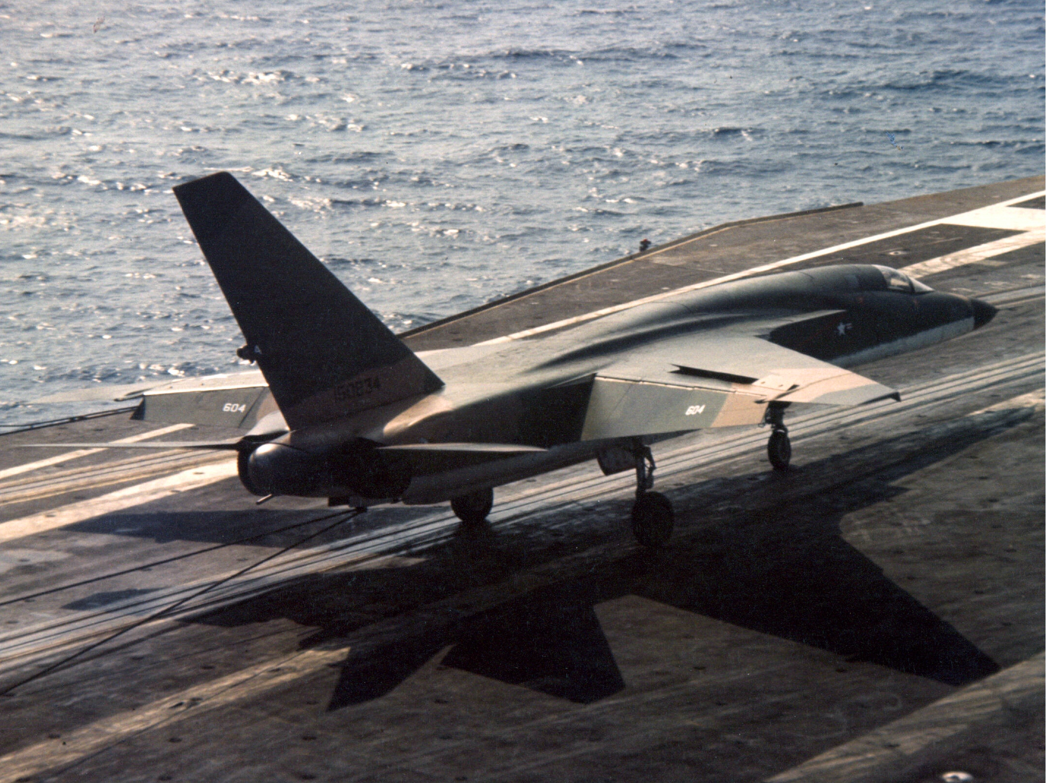 A U.S. Navy North American RA-5C Vigilante aircraft (BuNo 150834) of heavy reconnaissance squadron RVAH-13 Bats having just landed on the aircraft carrier USS Kitty Hawk (CVA-63) during that carrier's deployment to Vietnam from 19 October 1965 to 13 June 1966. The U.S. Navy experimented with aircraft camouflage and painted half of the aircraft of Attack Carrier Air Wing 11 (CVW-11) with dark green colours to blend in with the Vietnamese jungle. The results proved inconclusive for the U.S. Navy, whereas the U.S. Air Force concluded that the camouflage was effective. U.S. Navy planes would not be camouflaged until the 1980s. 150834 was one of three replacement aircraft for RVAH-13 on this deployment, as the squadron had lost three of its six aircraft.